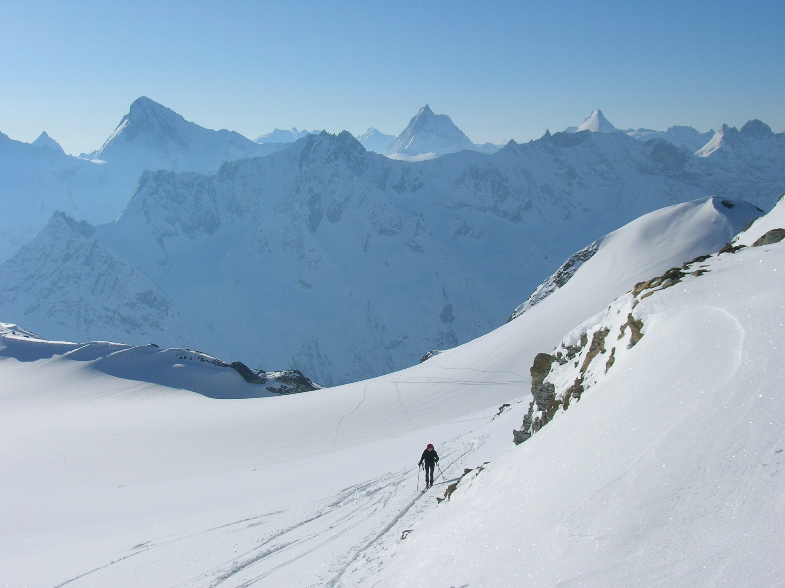 Dent Blanche, Matterhorn-Cervino, Dent d'Hérens from Pointe de Vouasson